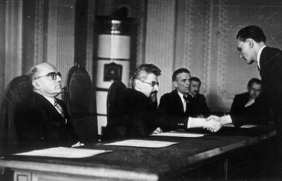 Imre, Trencsényi-Waldapfel, Rector of the University in Szeged, 1950